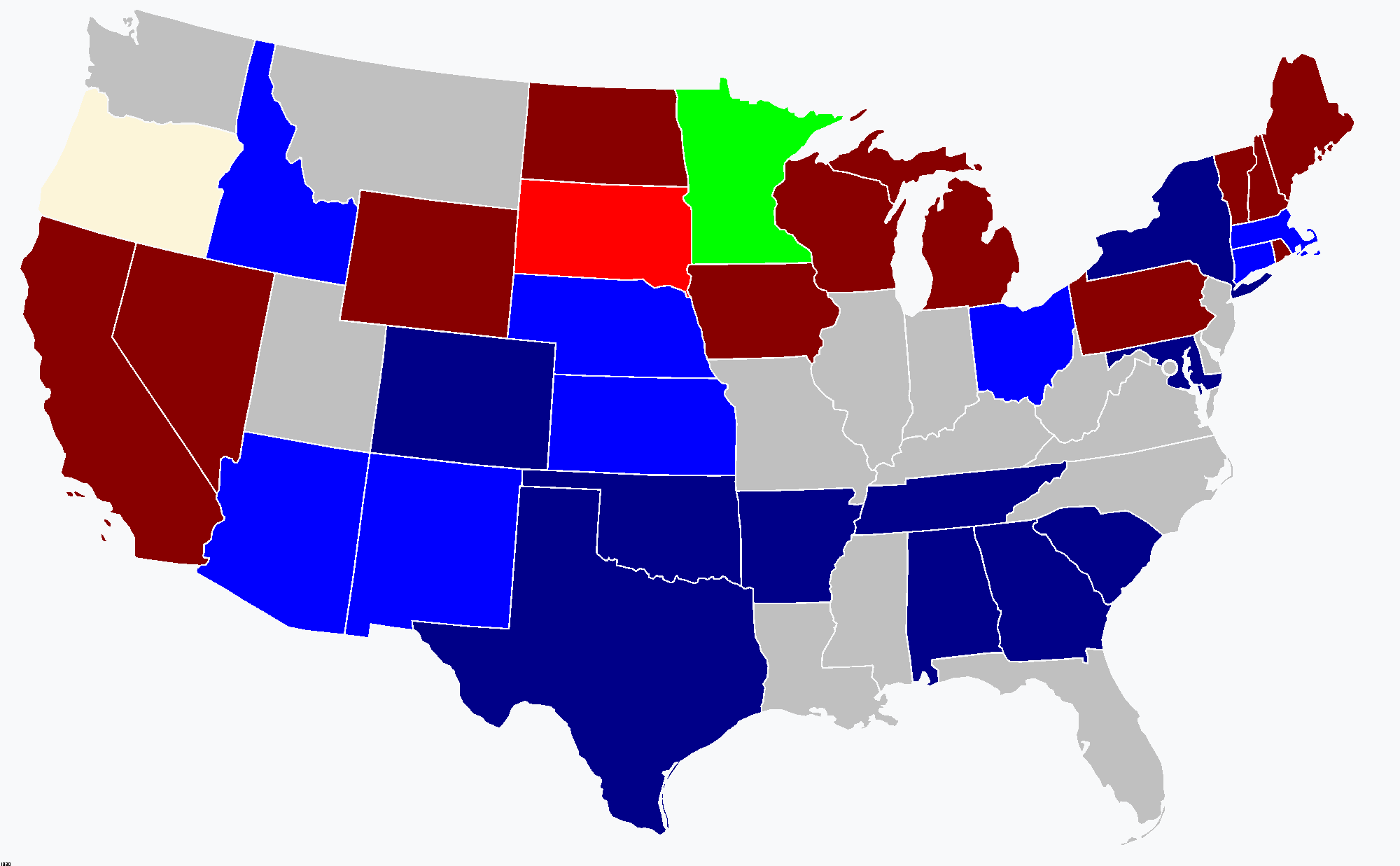 A map showing the results of the 1930 United States Gubernatorial elections